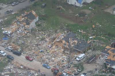 Aerial image of tornado damage in Murfreesboro, Tennessee, from the April 10, 2009, EF4 tornado strike.